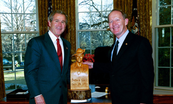 March 1, 2004 - Senator Lamar Alexander presents President George W. Bush a bust of the president's seventh-generation grandfather, James Weir, who was a soldier in the Battle of King's Mountain during the Revolutionary War Oct. 7, 1780. Alexander's seventh-generation grandfather, John Alexander, also fought in the historic battle. The senator accepted the bust for the president in September during a production of "The Wataugans" by the Overmountain Victory Trail Assocation.